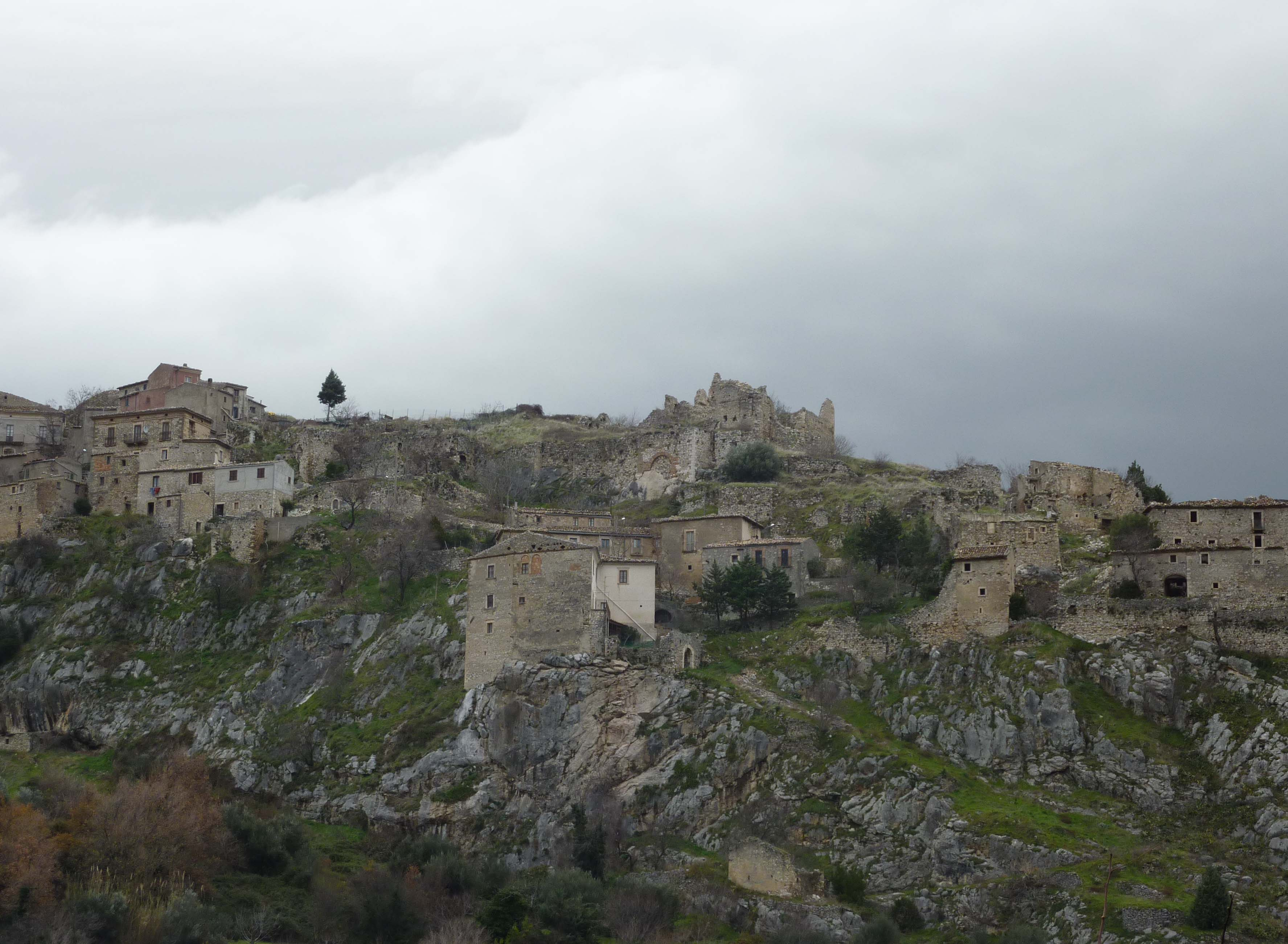 Pescosansonesco Vecchio - Landscape